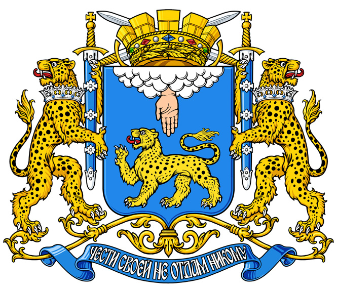 Pskov, coat of arms